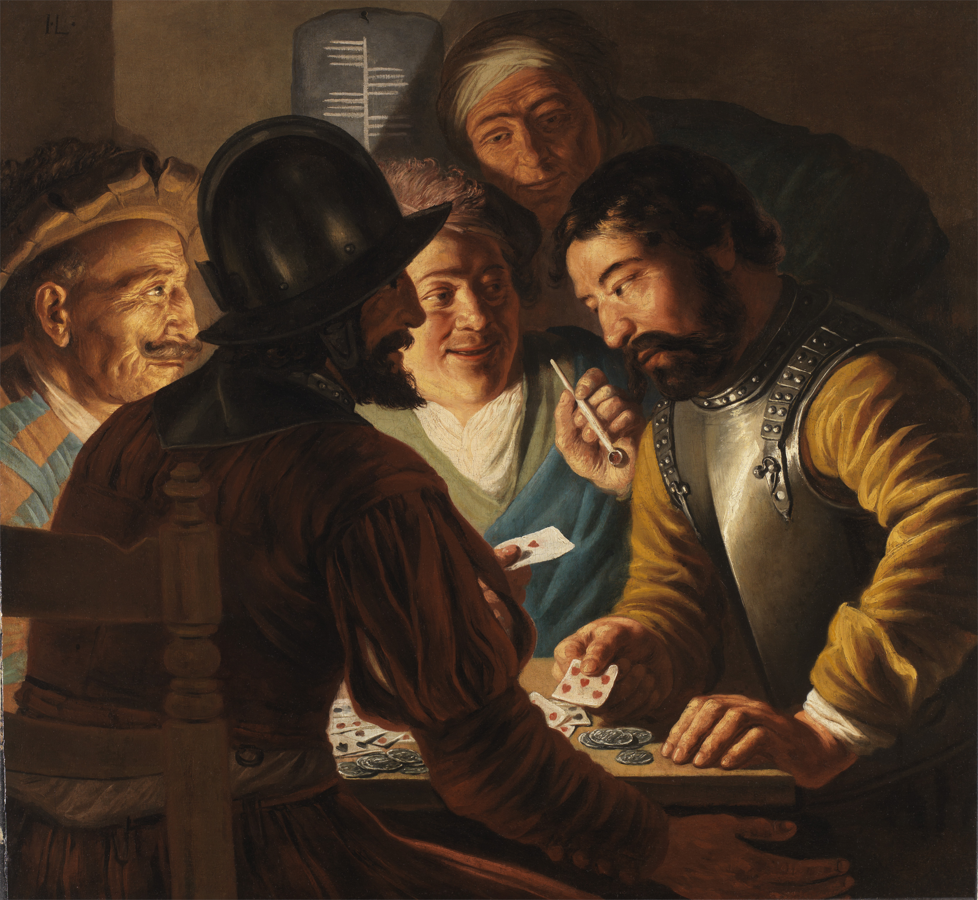 Card players oil on canvas 97.5 x 105.4 cm signed t.l.: I.L. circa 1625